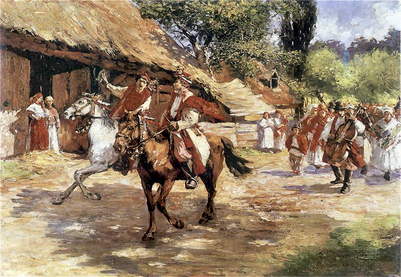 "Wesele" painting by Włodzimierz Tetmajer